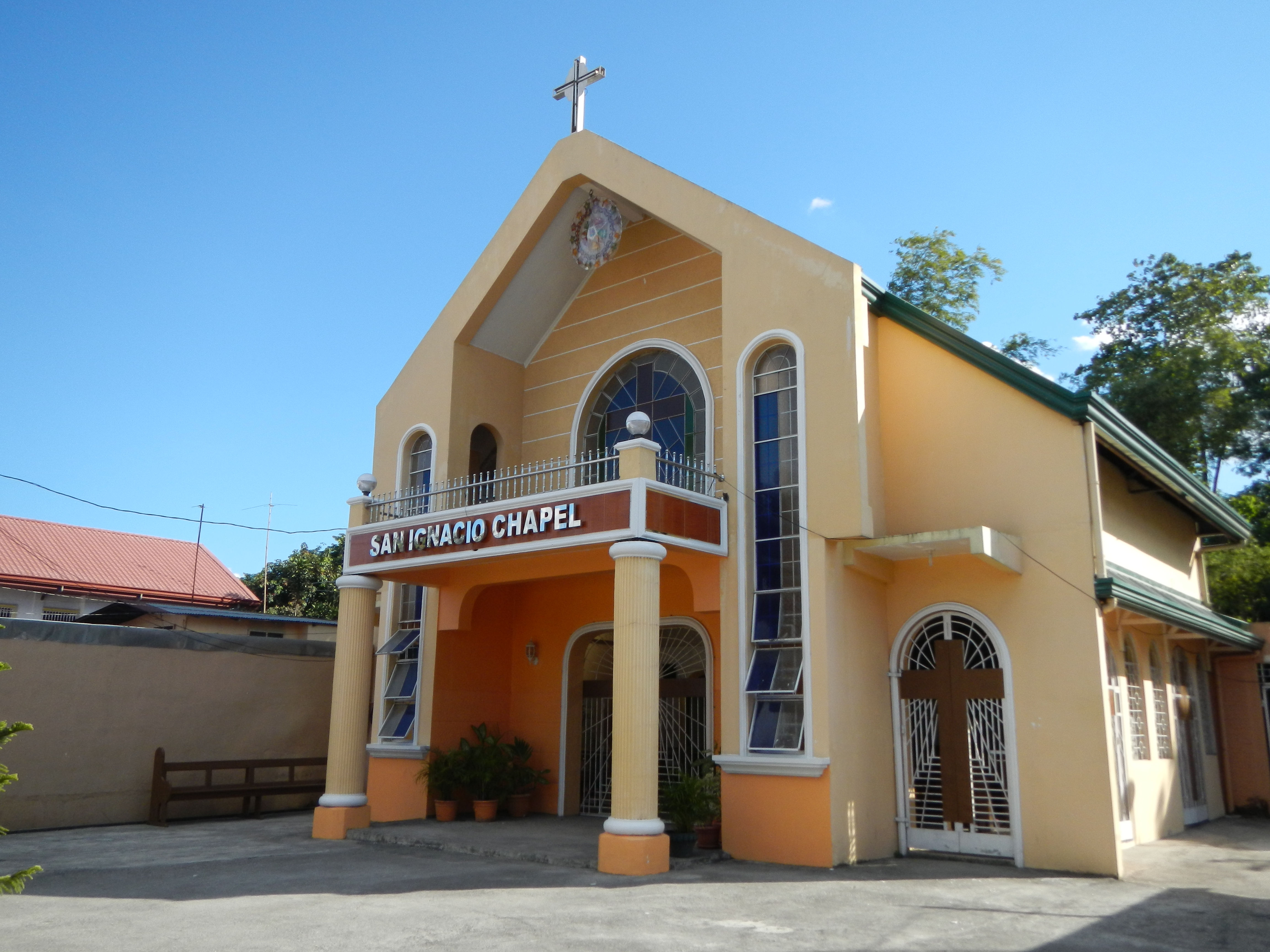 Upload Wizard photos of a) Barangay Pandan, Angeles[1] City, Pampanga, the Official Seal and Logo, the Flag Seal, the Barangay Hall, and the Flag Seal of Angeles City, all in the Barangay Hall including the Welcome Arch and b) Marquee Mall in Angeles City [2].